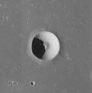 Crater Carlini (detail of LRO - WAC global moon mosaic; Mercator projection)